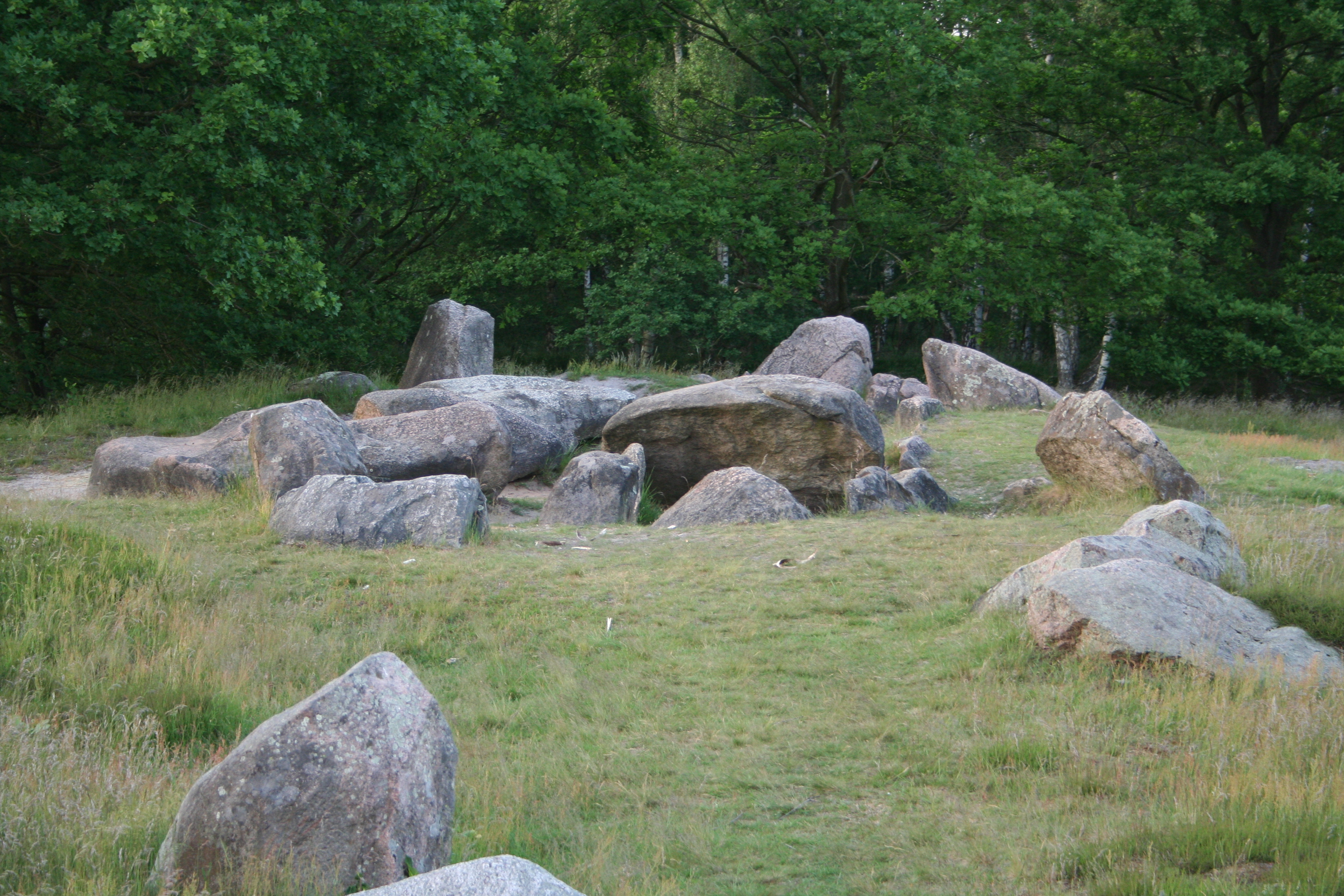 Megalithic tomb Glaner Braut 2